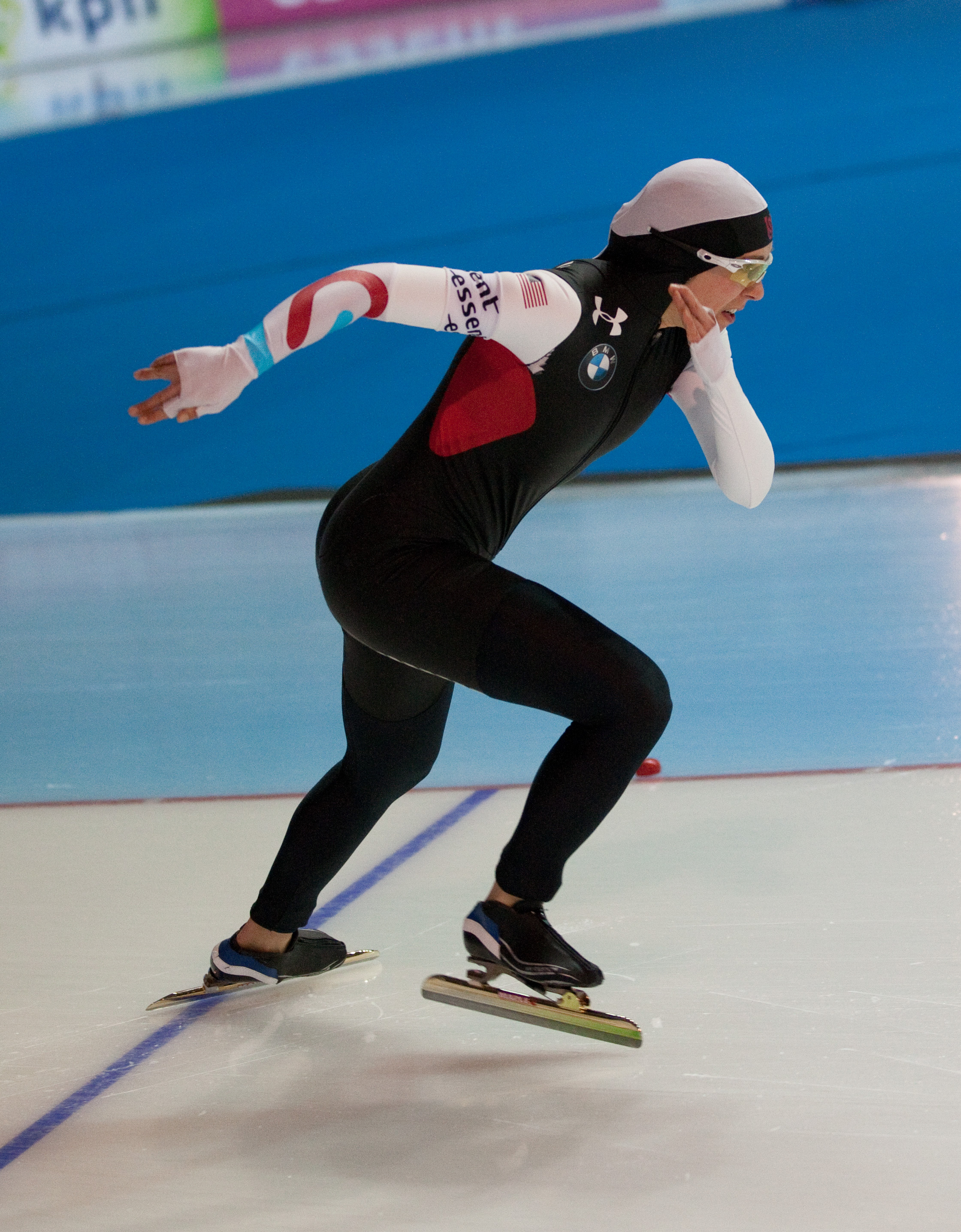 Anna Ringsred at the start of the 1500 meters at a World Cup event on March 2, 2013